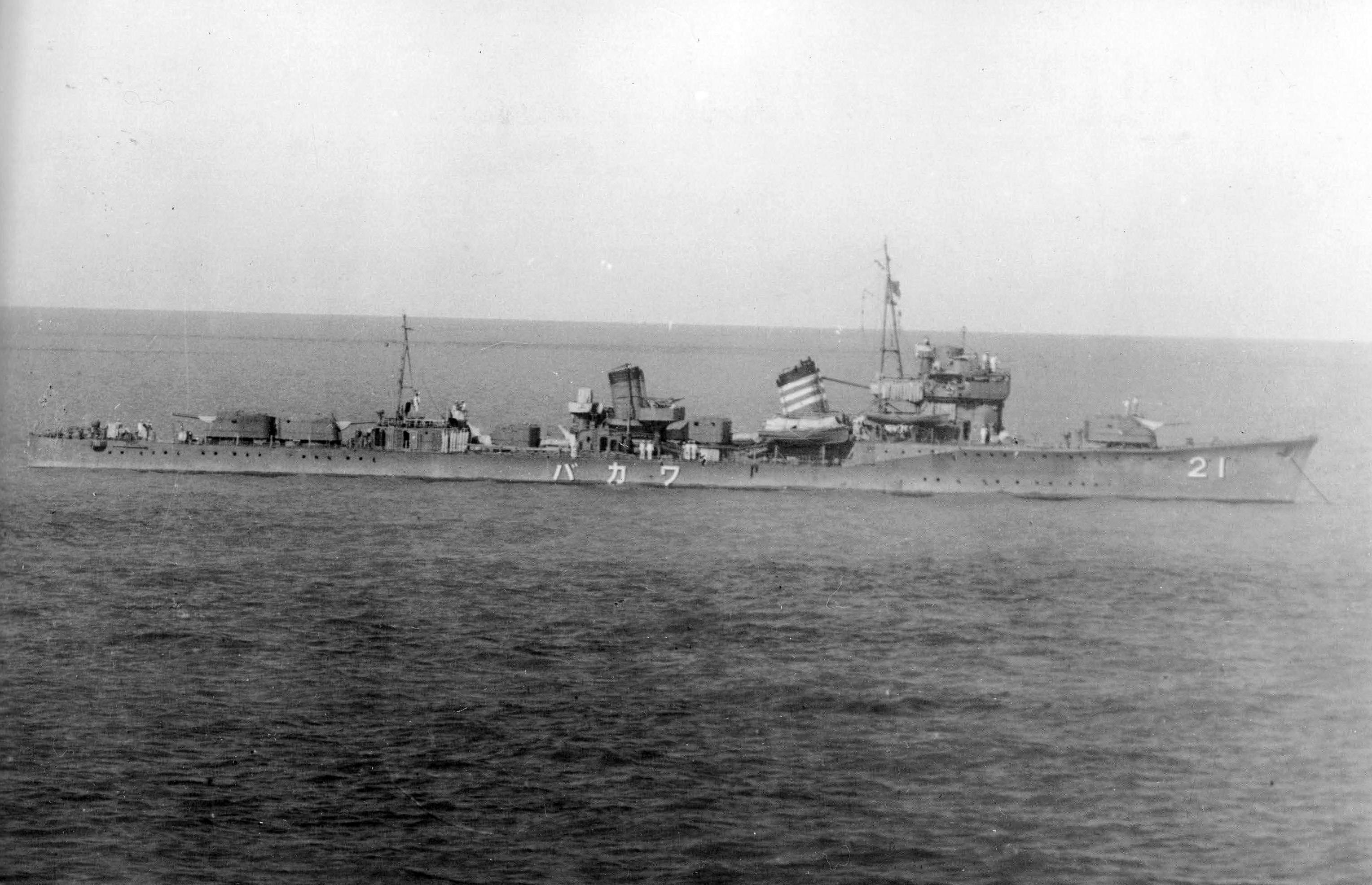 Imperial Japanese Navy destroyer Wakaba, the second Japanese warship to bear that name.